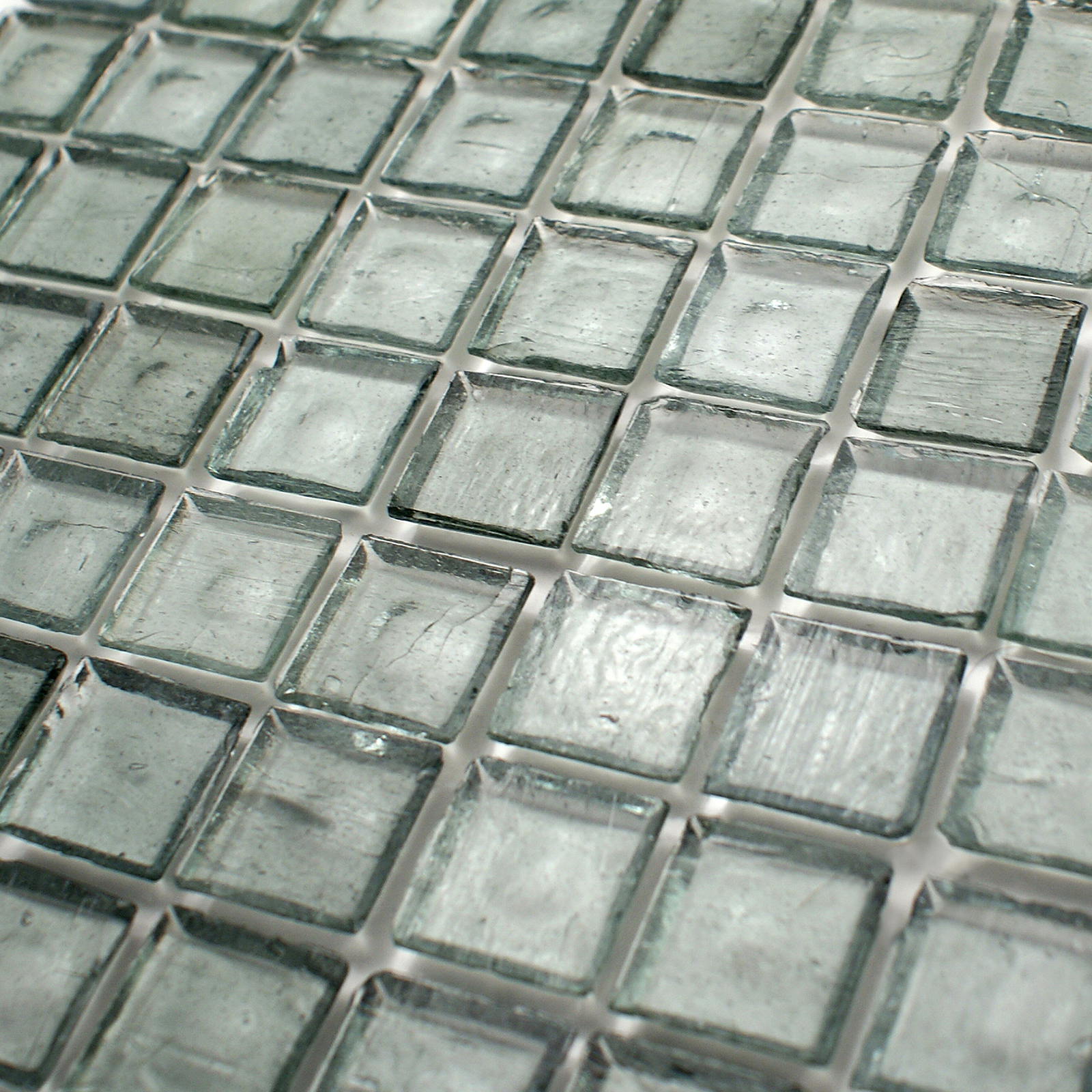 1" x 1" glass mosaic tile